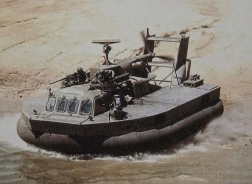 A US Army ACV hovercraft patrolling the Mekong River in Vietnam